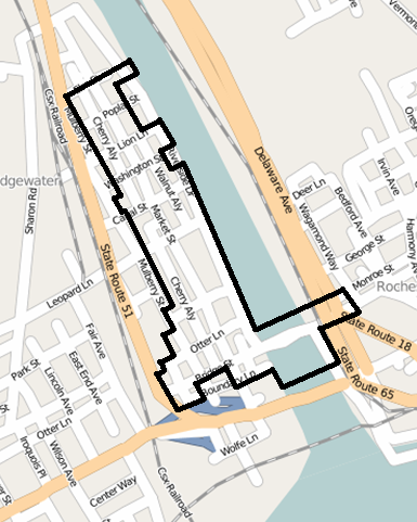 Map showing the boundaries of the Bridgewater Historic District in Bridgewater, Pennsylvania, United States. The historic district is listed on the National Register of Historic Places. Boundaries are derived from the map attached to the district's National Register nomination form.